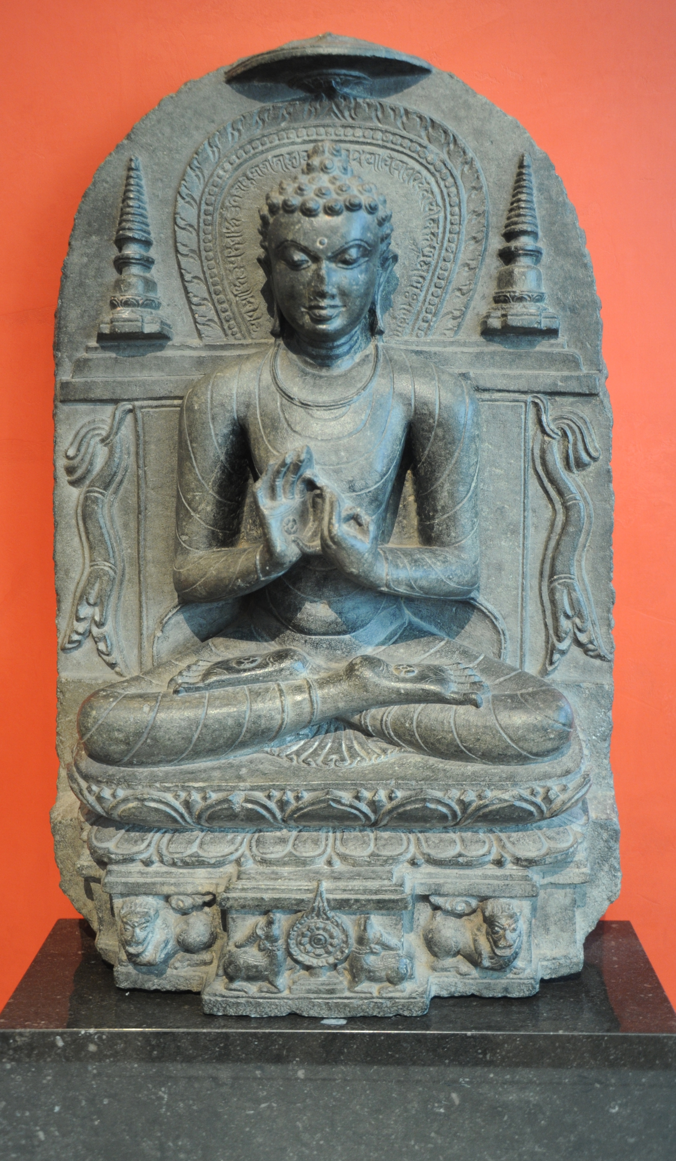 Buddha teaching Dharma, on lion throne, with mudra and mantra, stupas, schist, Chicago Art Institute, Chicago, Illinois, USA. The text around the head statesː Ye dharmā hetuprabhavā hetuṃ teṣāṃ tathāgataḥ hyavadat teṣāṃ ca yo nirodha evaṃ vādī mahāśramaṇaḥ so ha. "Of those experiences that arise from a cause, The Tathāgata has said: "this is their cause, And this is their cessation": This is what the Great Śramaṇa teaches."